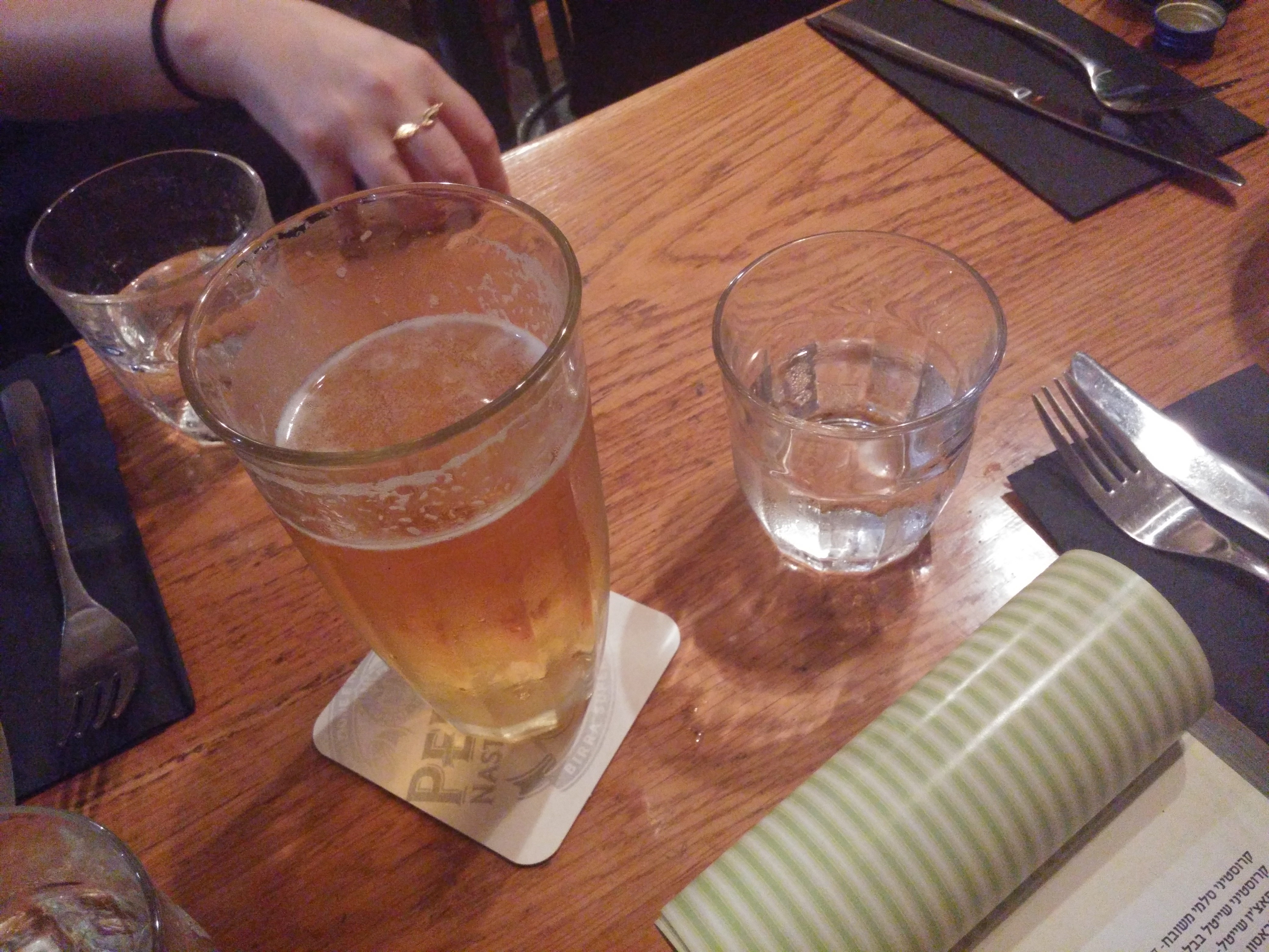 A glass of beer on a wooden table